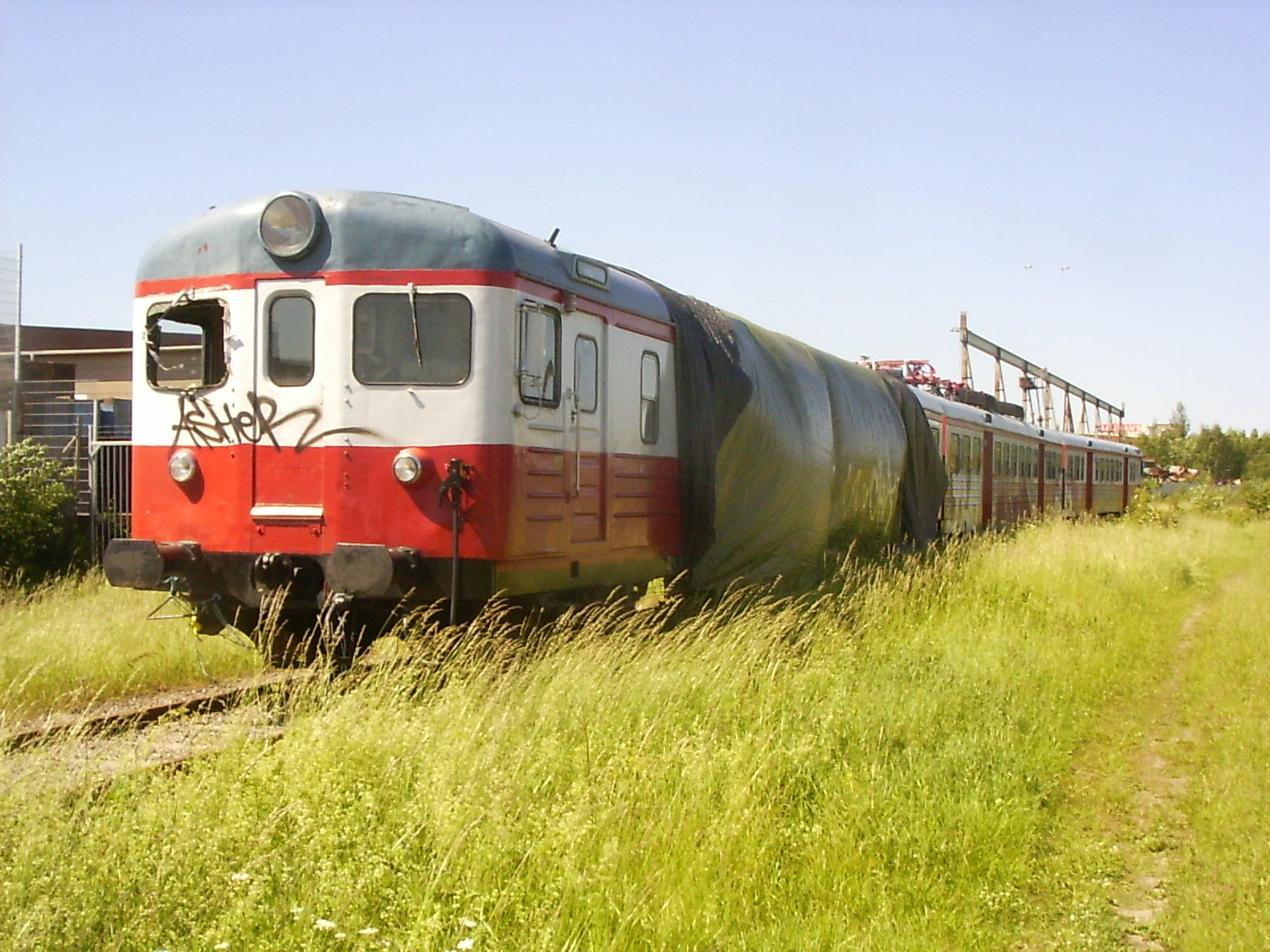 Electric multiple unit at Norrköping, evidently shortly before demolishment